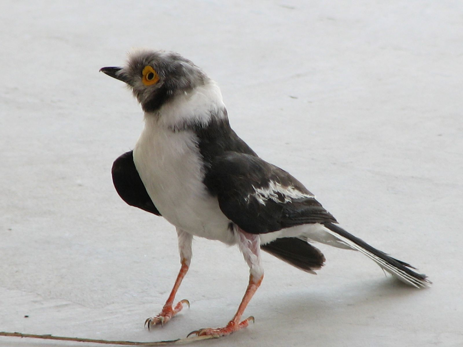 White Helmetshrike (Prionops plumatus), Etosha National Park, Namibia